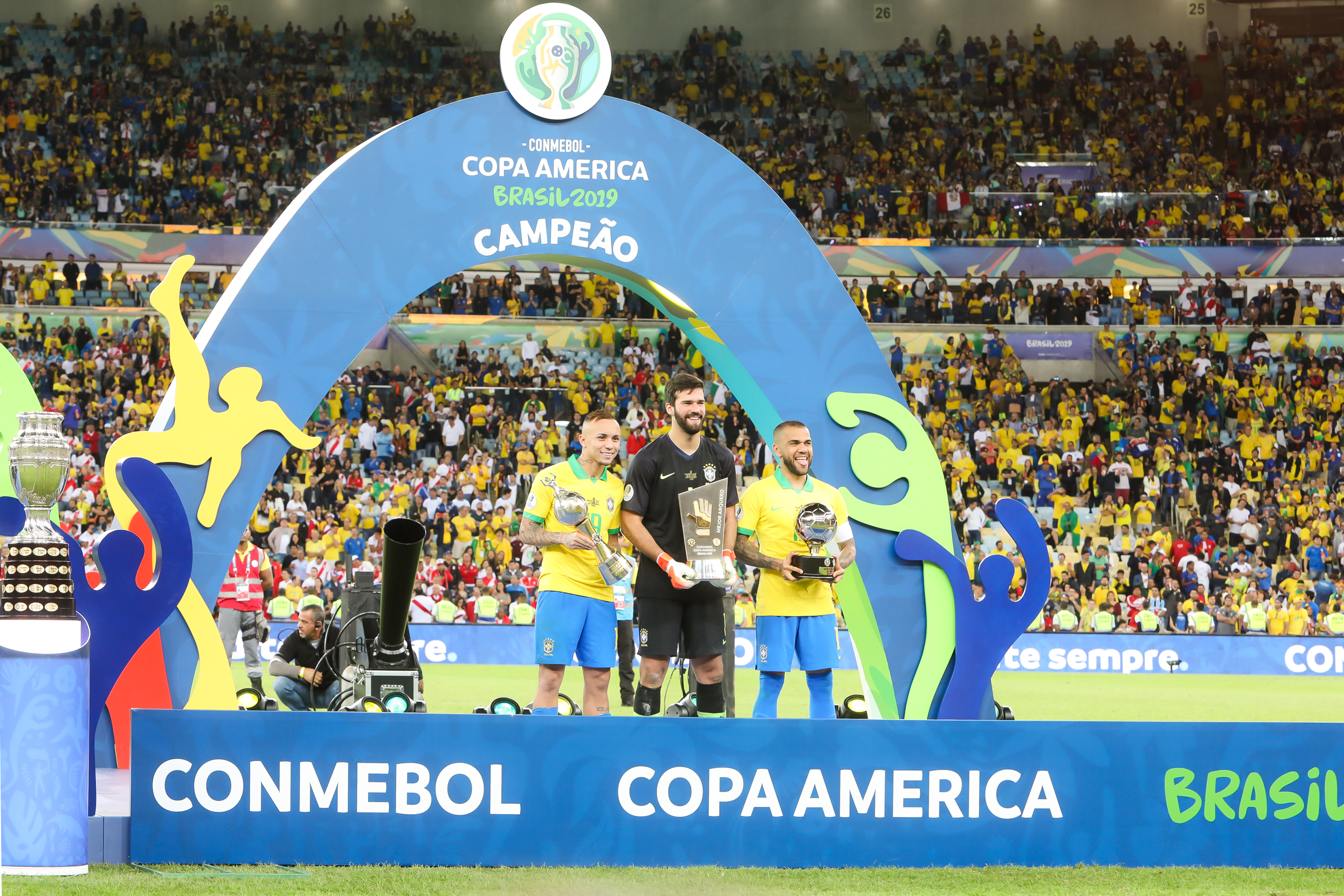 (Rio de Janeiro - RJ, 07/07/2019) Presidente da República, Jair Bolsonaro, e o Presidente da Confederação Sul-Americana de Futebol (CONMEBOL), Alejandro Domínguez, durante entrega da premiação da Copa América 2019. Foto: Clauber Cleber Caetano/PR